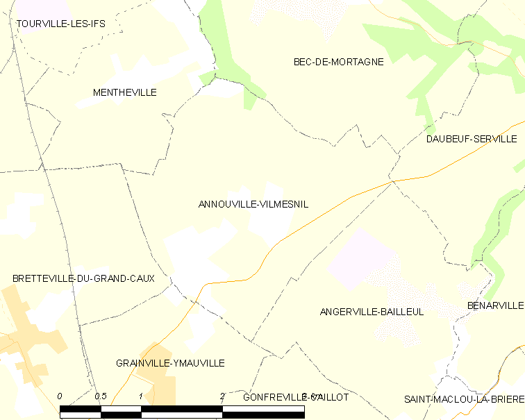 Map of French municipality Annouville-Vilmesnil